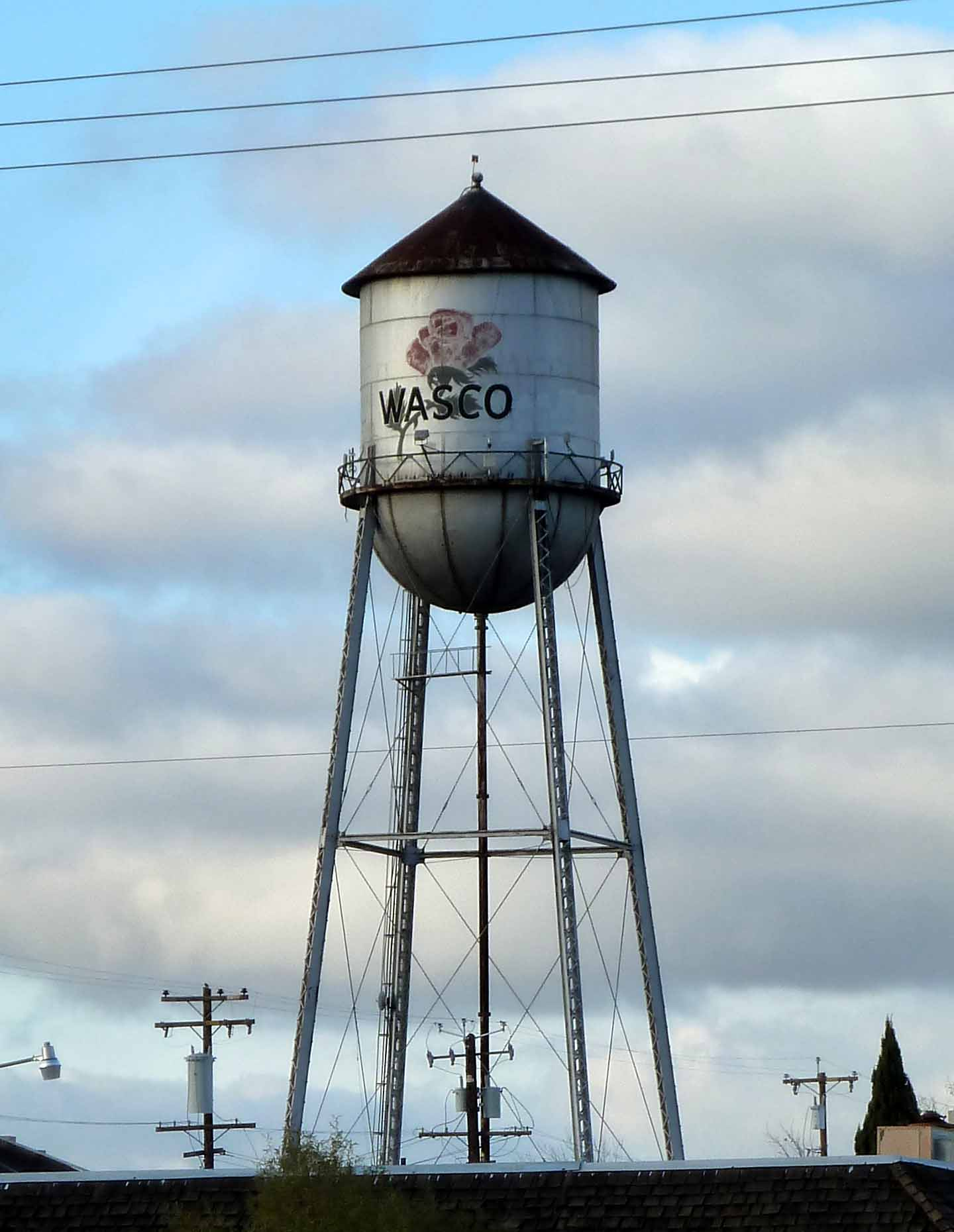 Water tower, Wasco, California, USA.